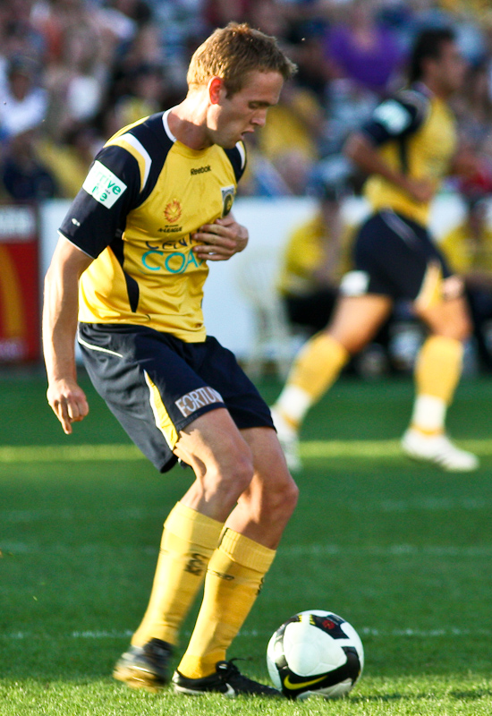 Brad Porter playing for the Central Coast Mariners against Sydney FC